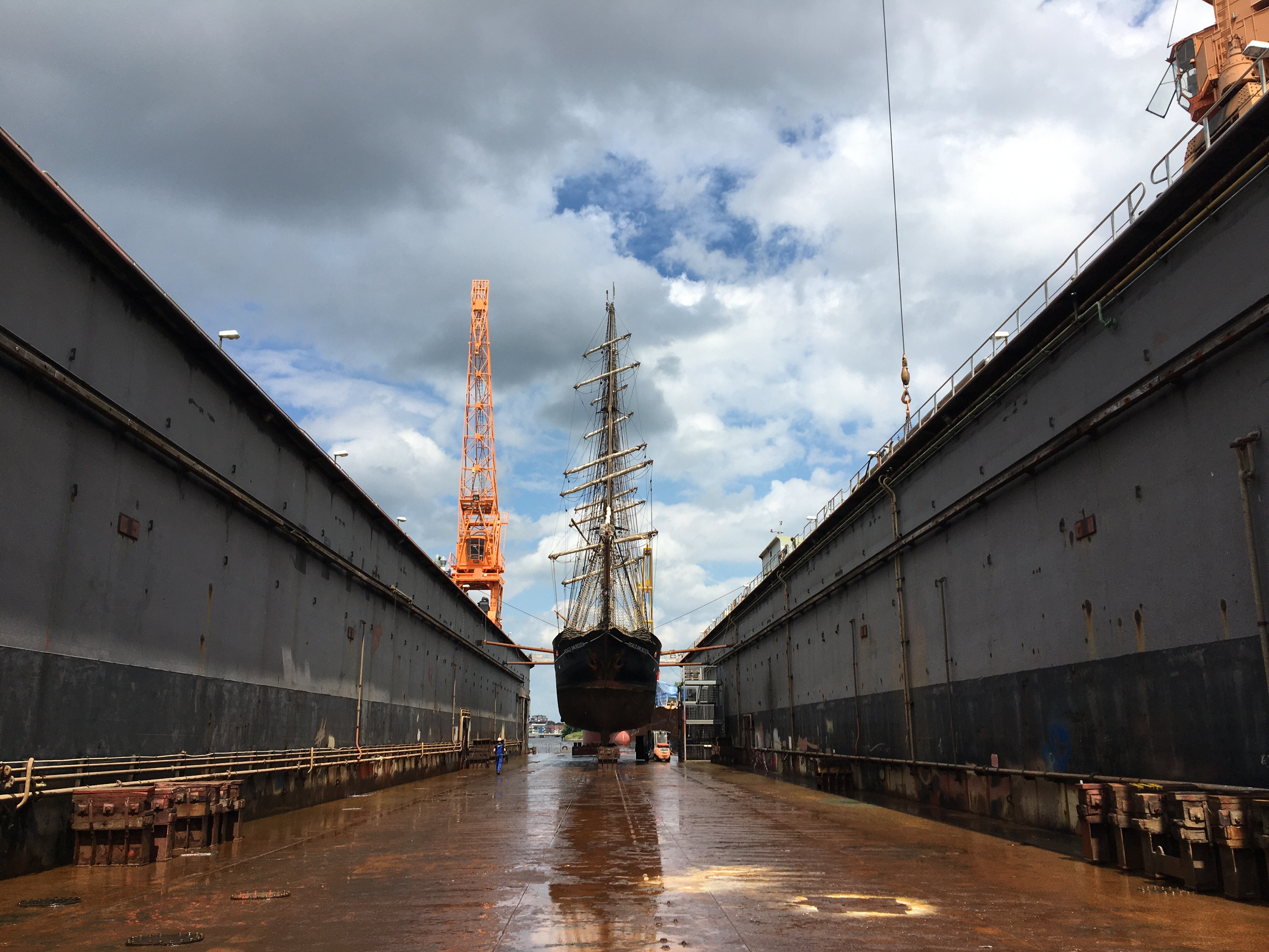 Brigg Roald Amundsen at Dockyard